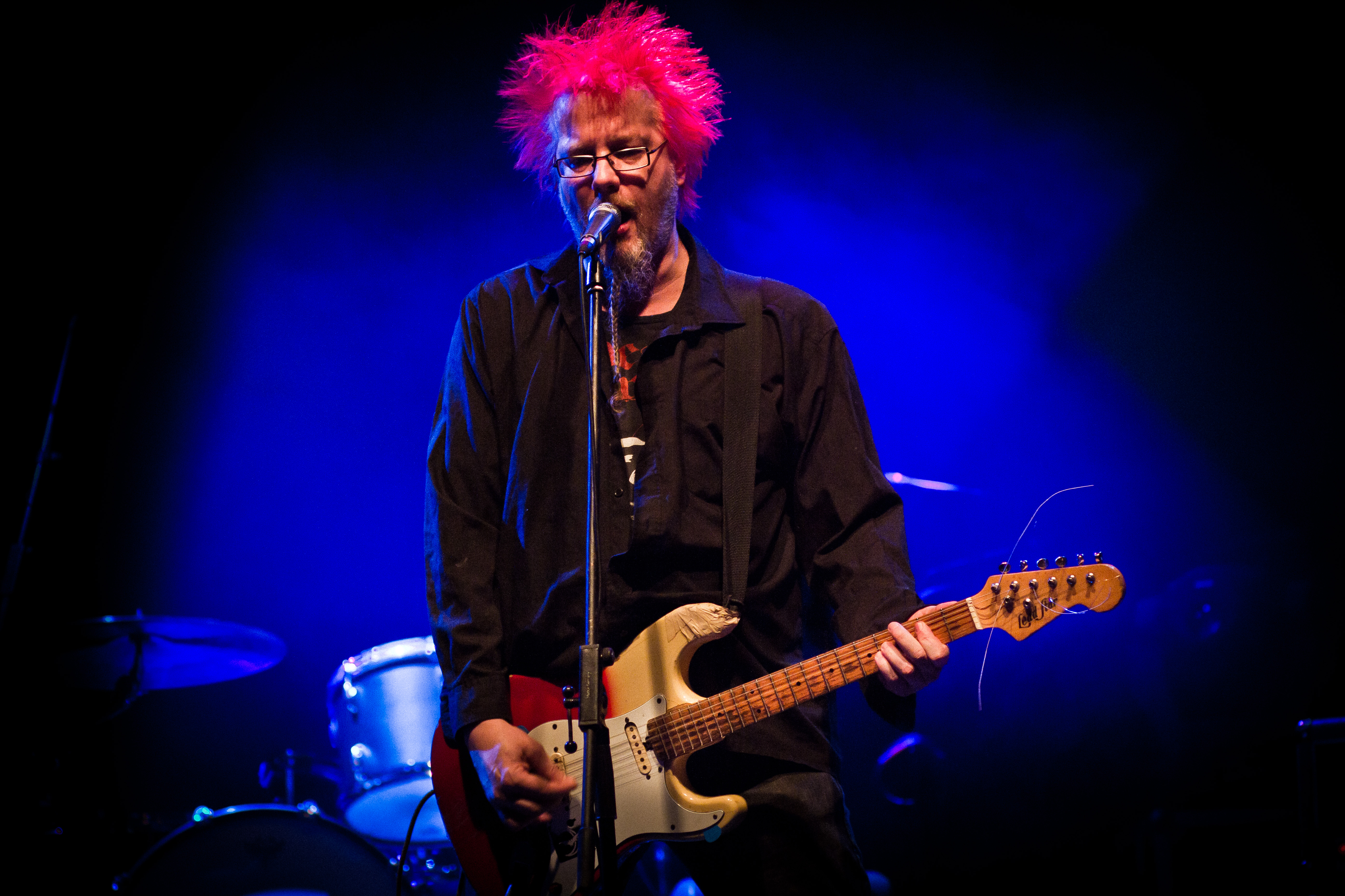 Legendary Estonian Punk Villu Tamme with J.M.K.E @ Rock Cafe 13.12.2011